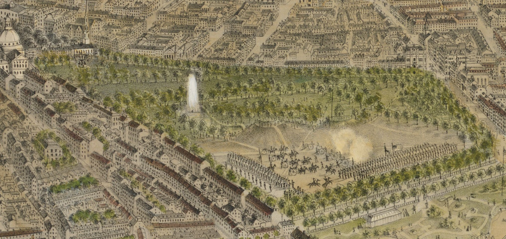 Boston Common, with July 4th festivities. Detail of: Map of Boston, Massachusetts, July 4, 1870. By F. Fuchs; published by John Weik.